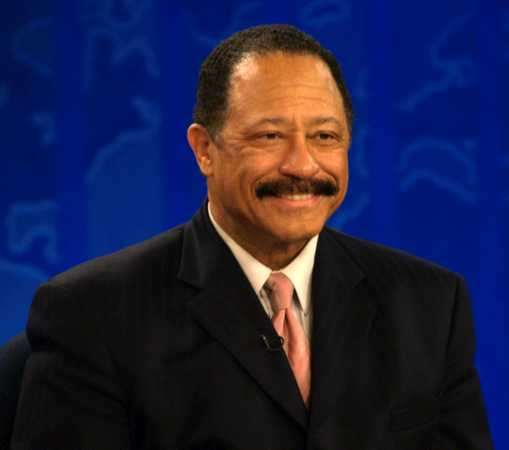 Photo taken and submitted by Phil Konstantin. I give my permission for anyone to use this photo.